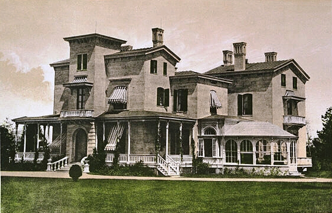 "Nuits" (1853) the residence of Francois Cottenet in Irvington, New York, circa 1860